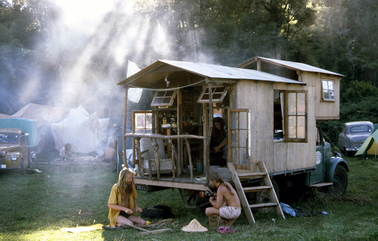 Image (photograph) taken at the 1981 Nambassa 5 day festival by Official Nambassa Photographer and uploaded by User: Mombas 04:09, 7 May 2007 (UTC) Nambassa dot com Terms of Use: 1/ All users of this image are required to attribute this work to "Nambassa Trust and Peter Terry" and the url: " " is to accompany all use. 2/ Attribution. You must attribute the work in the manner specified by the author or licensor. 3/ For any reuse or distribution, you must make clear to others the license terms of this work. Statement by Nambassa Trust and Peter Terry